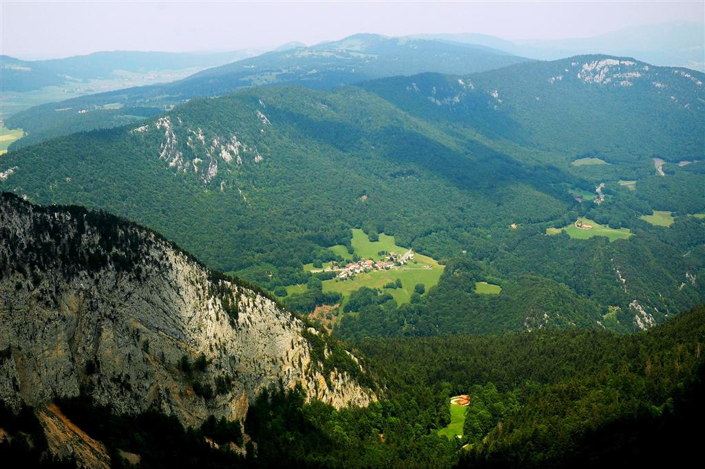 Jura mountains